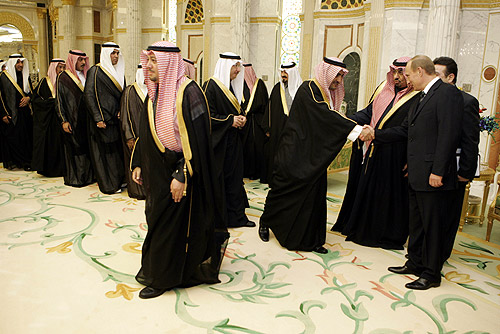 RIYADH. Before the beginning of the Russian-Saudi talks.